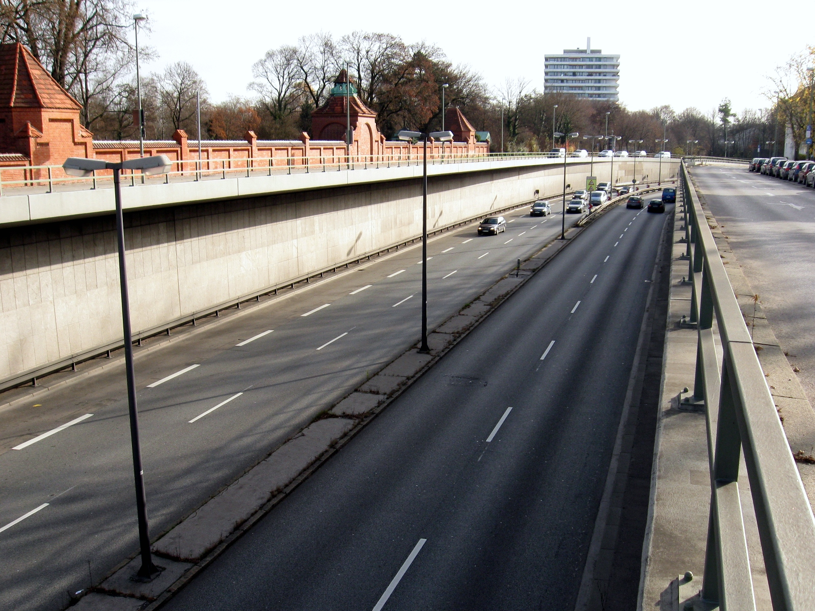 Lowered main road form the Isarring in Munich (Bavarion, Germany) near Ungererstraße (view eastwards)